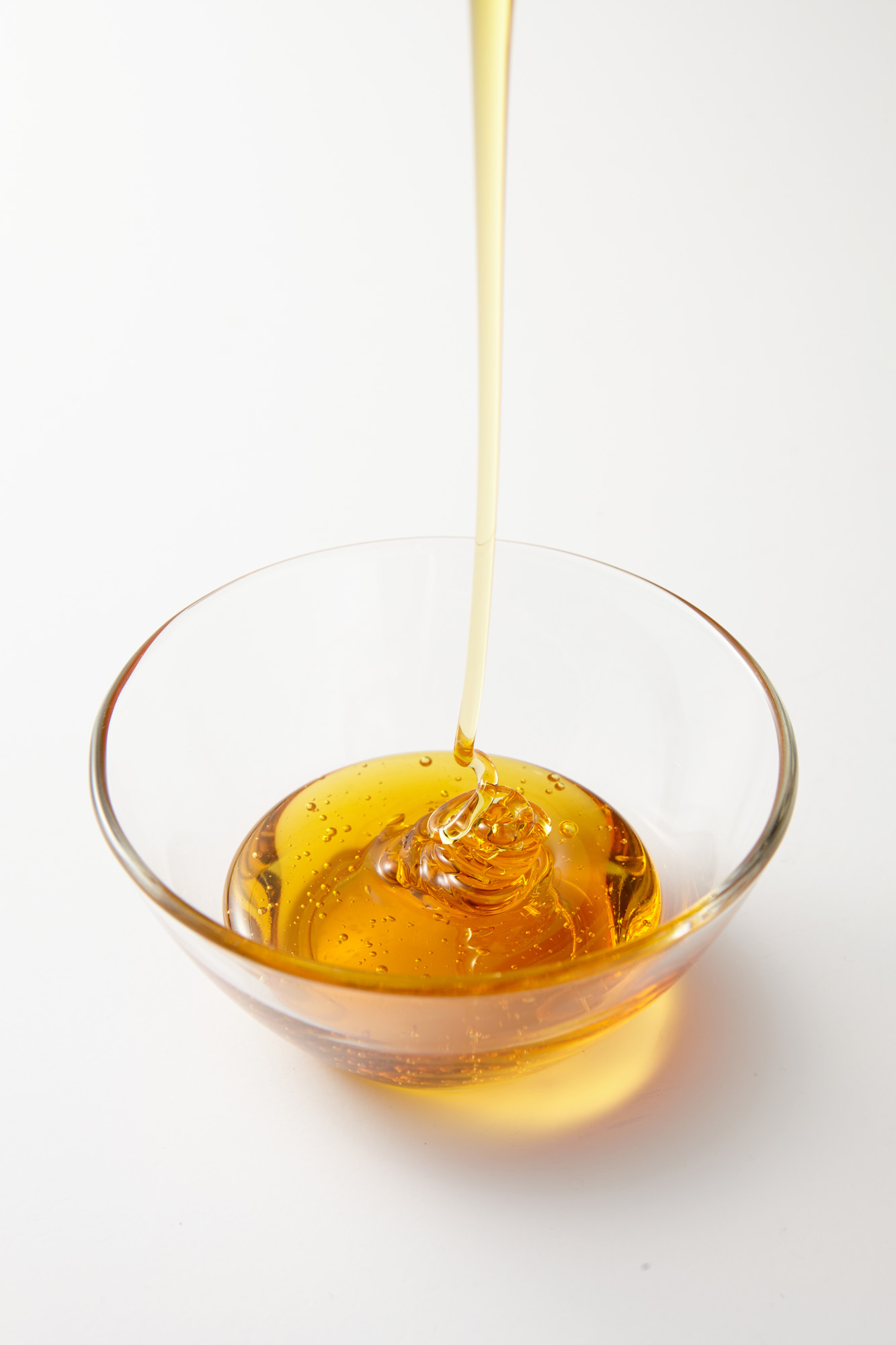 jocheong or mulyeot